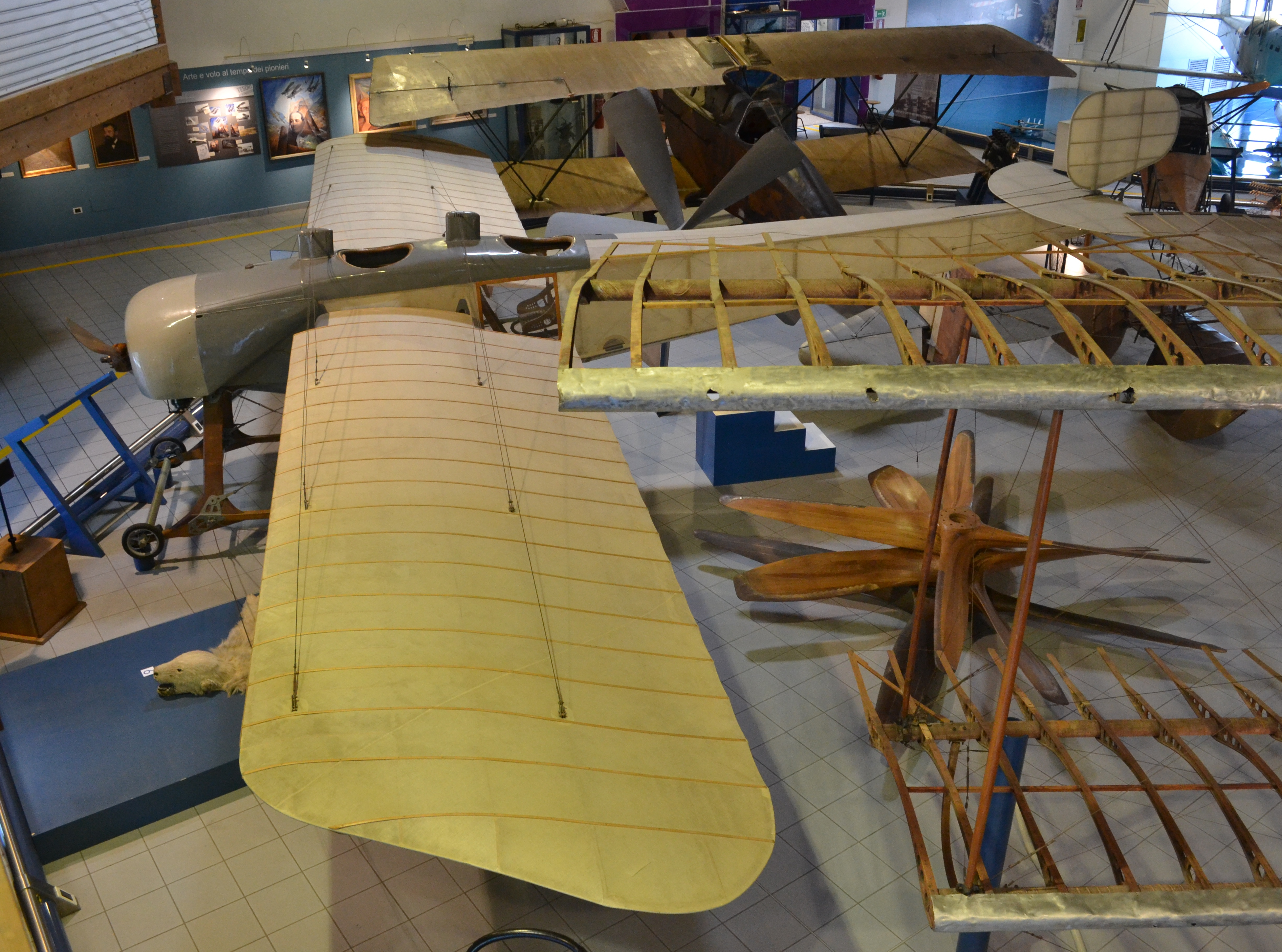 Top-side view of a Caproni Bristol trainer monoplane on display at the Gianni Caproni Museum of Aeronautics.